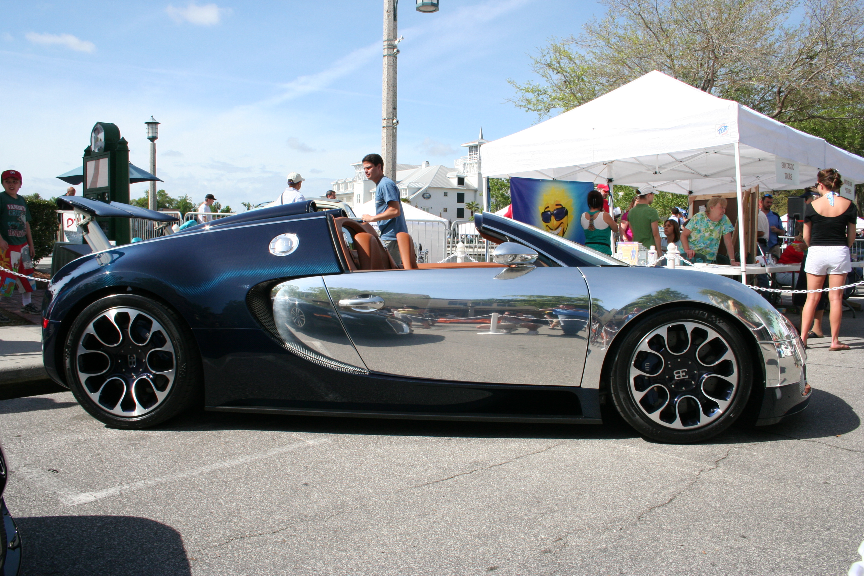 Bugatti Veyron Sang Bleu at Celebration, FL.